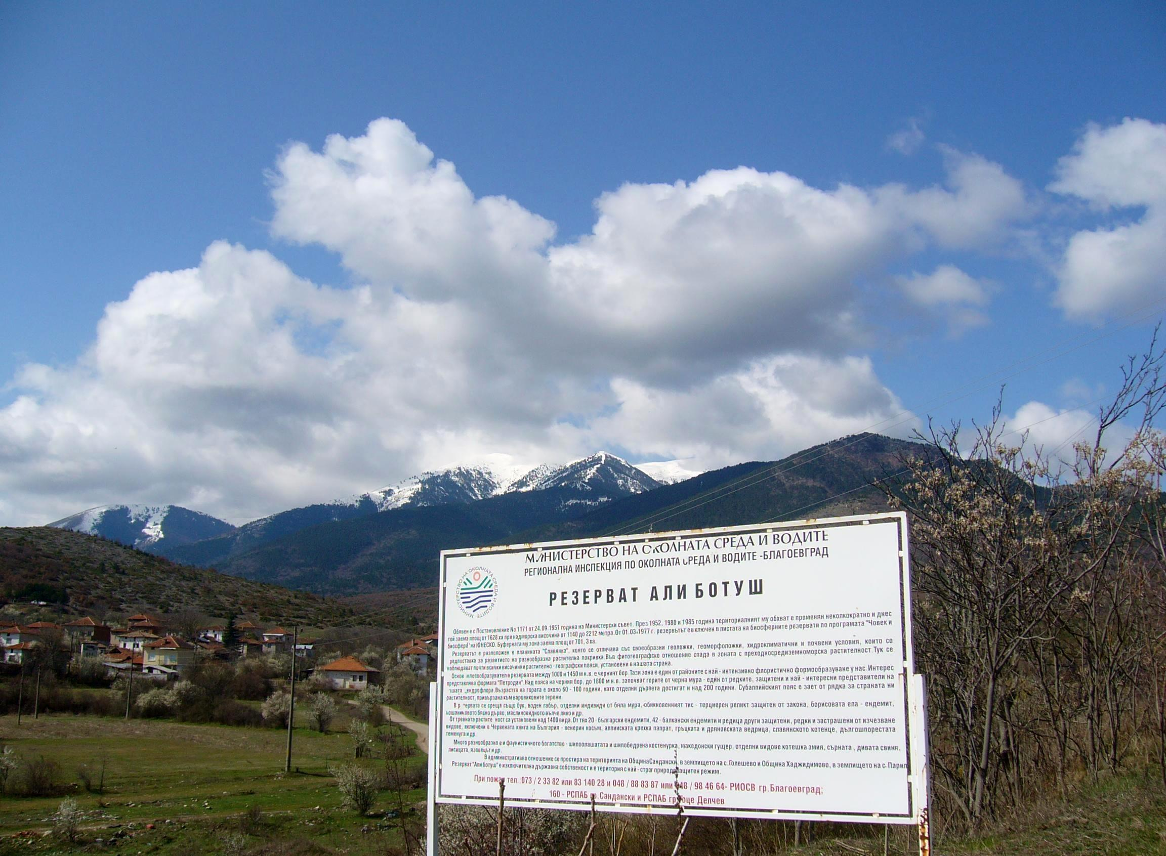 Information about Alibotush Nature preserve